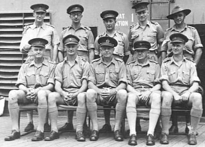 Group portrait of officers of Headquarters 1 Australian Corps gathered on the deck of the troop transport HMT Orcades during the voyage from Java to Australia. Identified, back row, left to right: Major T. S. Walsh Major S. Y. Robison Lieutenant Colonel F. W. McLean Lieutenant Colonel J. C. Bendall Sergeant T. J. Ryan Front row: Lieutenant Colonel W. P. McCallum Lieutenant Colonel S. F. Legge Major General S. R. Burston Colonel N. H. Fairley Lieutenant Colonel D. M. Veron